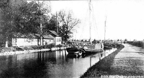 The skittle alley at Stora Holmen in Örebro, Sweden